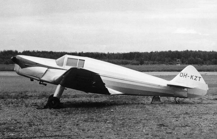 OH-KZT photographed at Malmi airport in July 1957.